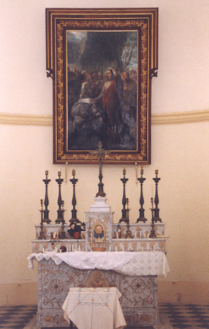 Inside the chapel of the resurrection of the son of the widow from Nain, Israel.